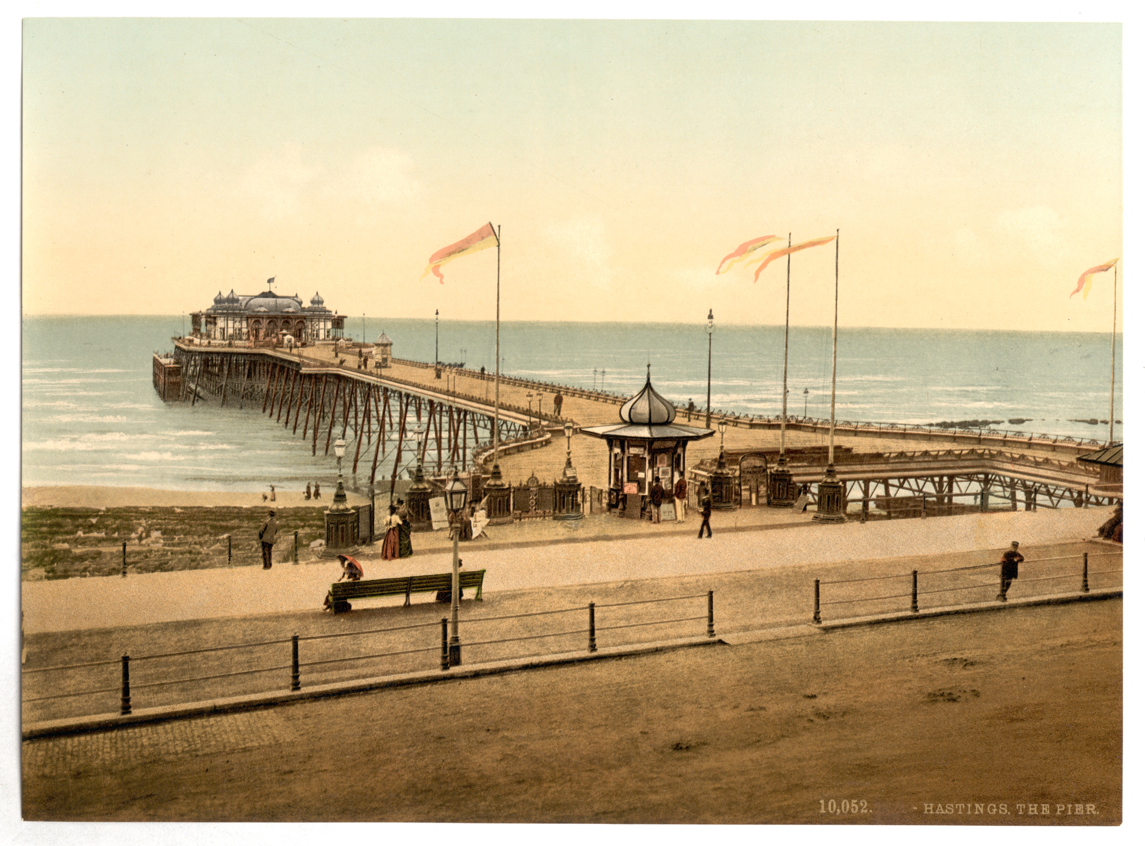 Print no. "10052".; More information about the Photochrom Print Collection is available at Title from the Detroit Publishing Co., Catalogue J-foreign section, Detroit, Mich. : Detroit Publishing Company, 1905.; Forms part of: Views of the British Isles, in the Photochrom print collection.